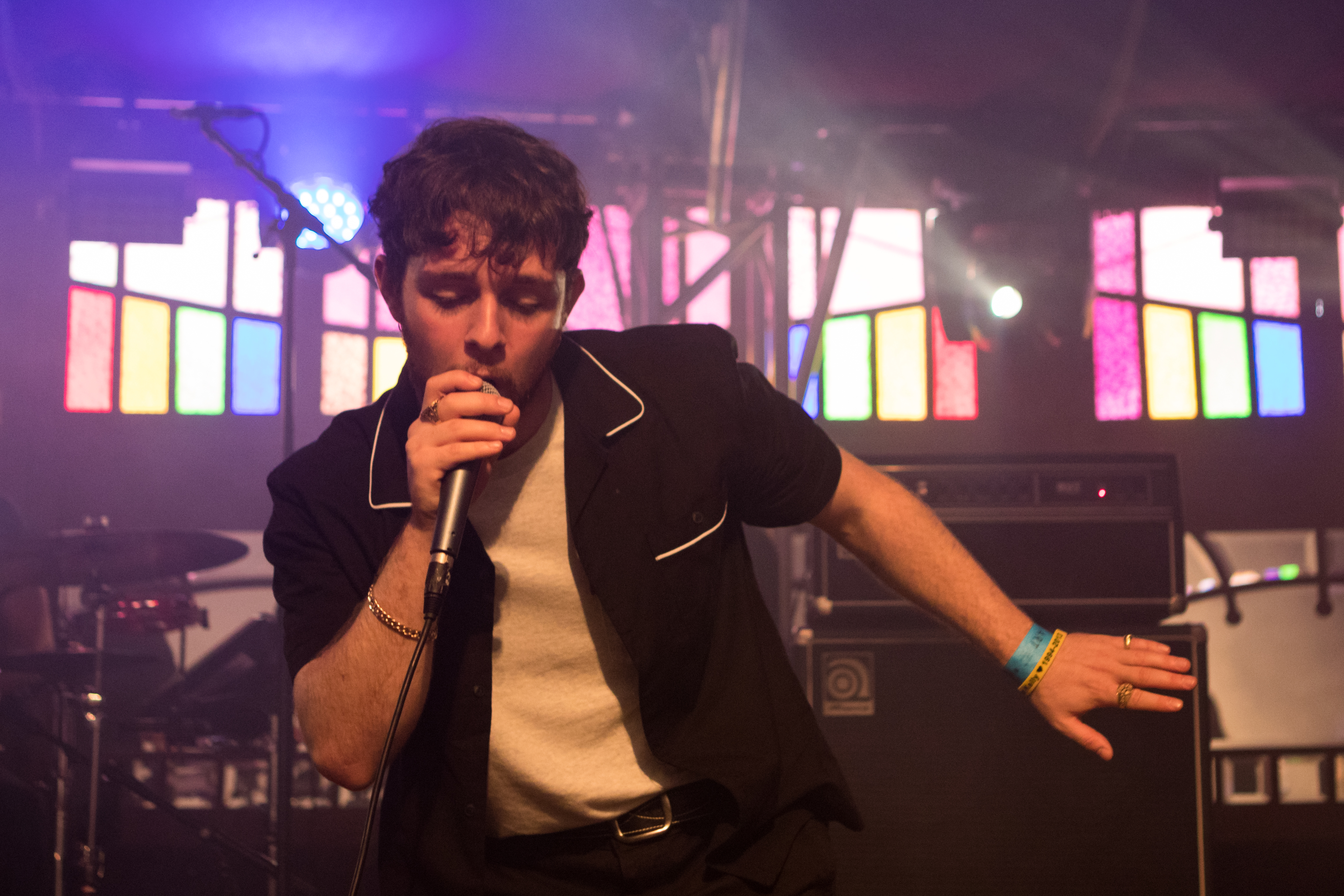 Tom Grennan at Haldern Pop Festival 2017